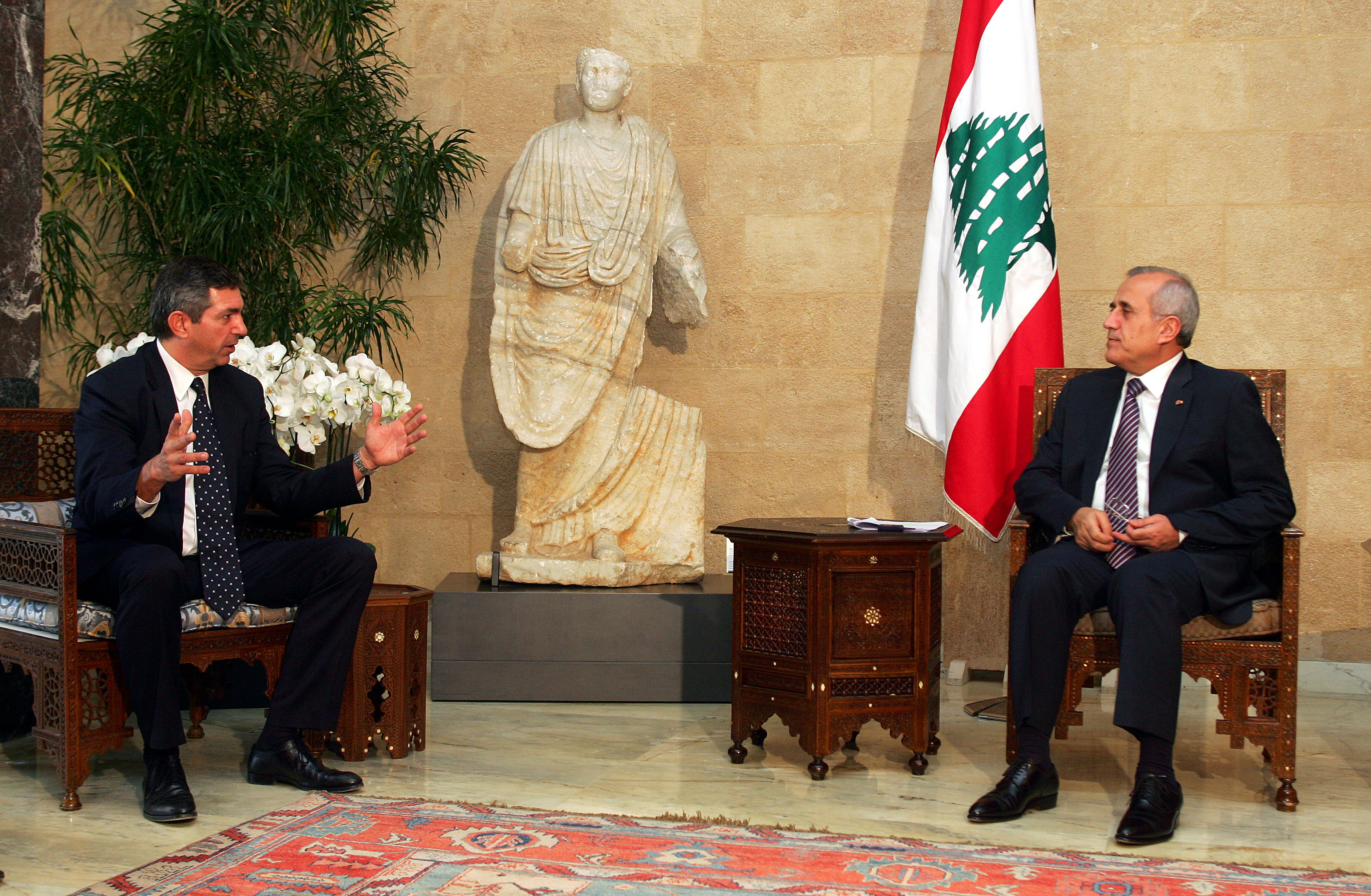 Foreign Minister of Greece Stavros Lambrinidis and Prime Minister of Lebanon Najib Mikati.